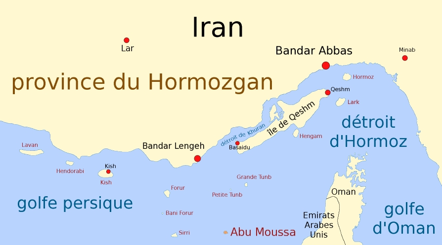 Map of Abu Moussa island, in french